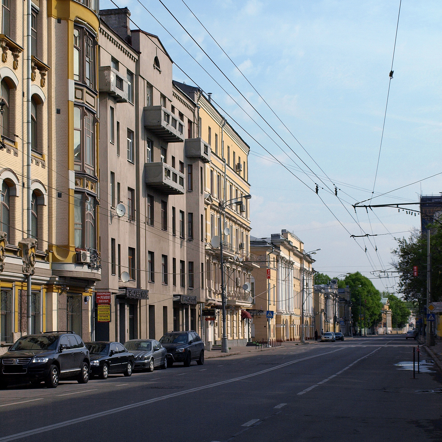 Prechistenka Street, Moscow.